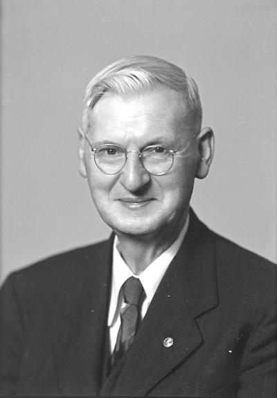 Representative Arthur L. Callow